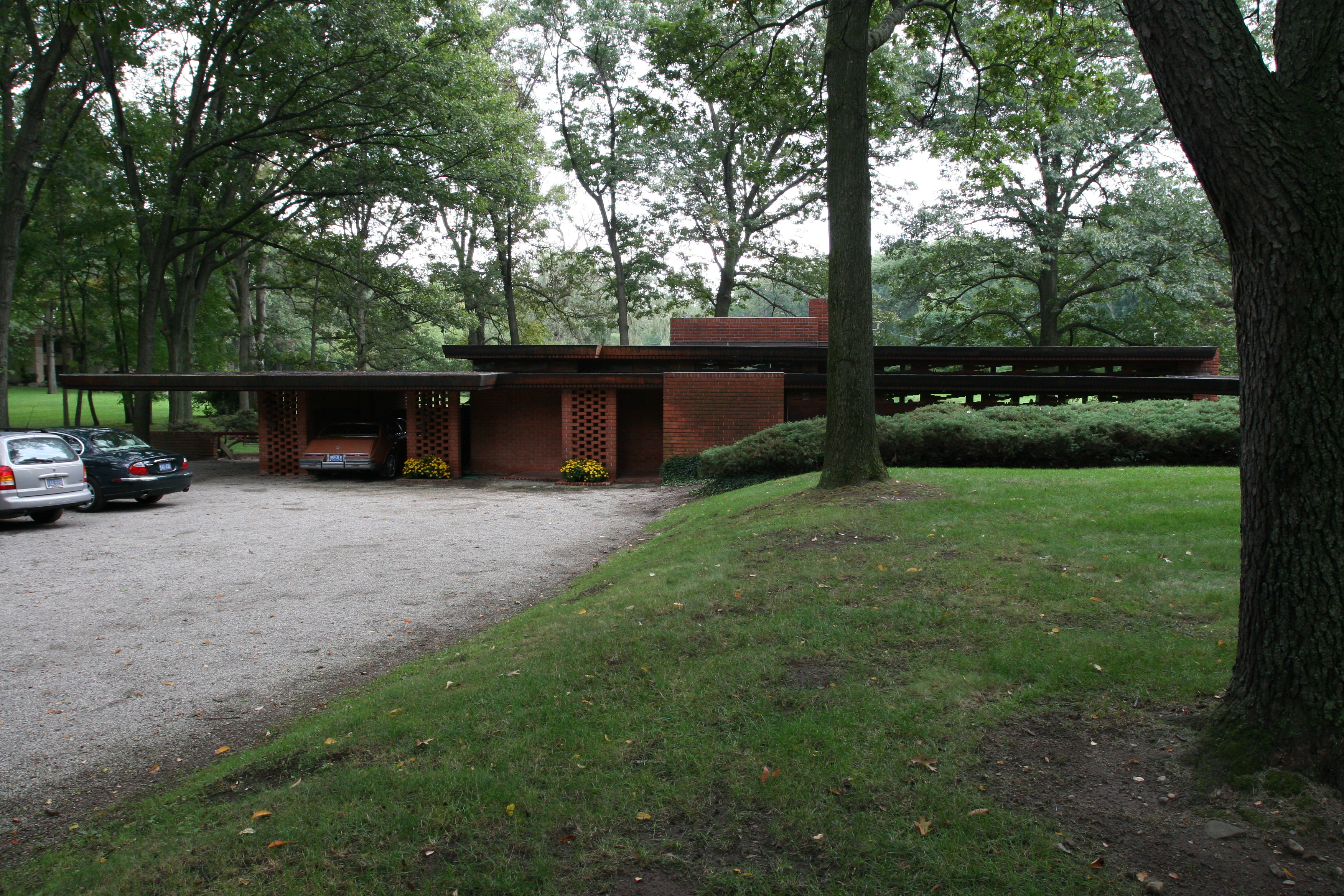 Melvyn Maxwell Smith House from the road - FLW, Architect - Bloomfield Hills built in 1946